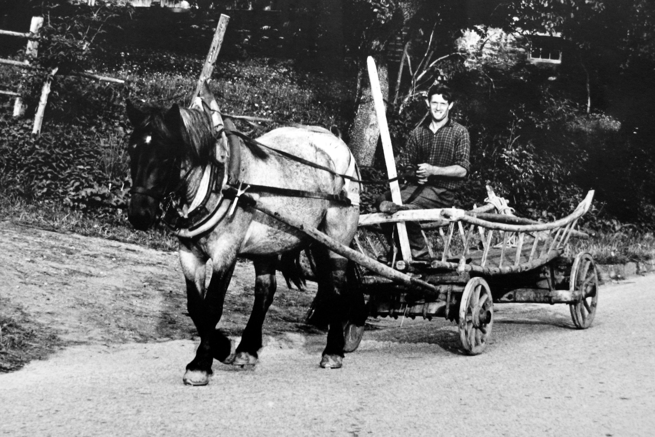 Horse-drawn vehicle with a farm laborer on the trip to Hay on the western edge of Sappl, a village near Lake Millstatt (Millstätter See), district Spittal an der Drau in Carinthia / Austria / European Union. Special thanks to John Palle vulgo "Veidl Hans" (1937-2012).